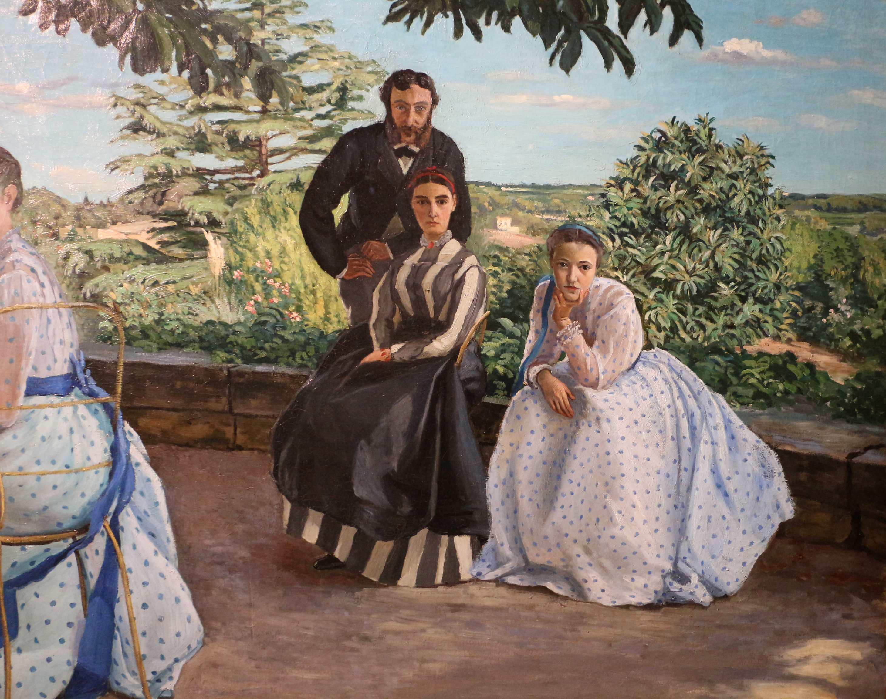 Paintings in Musée d'Orsay